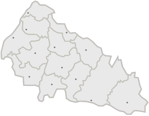 Map of Zakarpattia_Oblast in Ukraine with Rajon borderlines